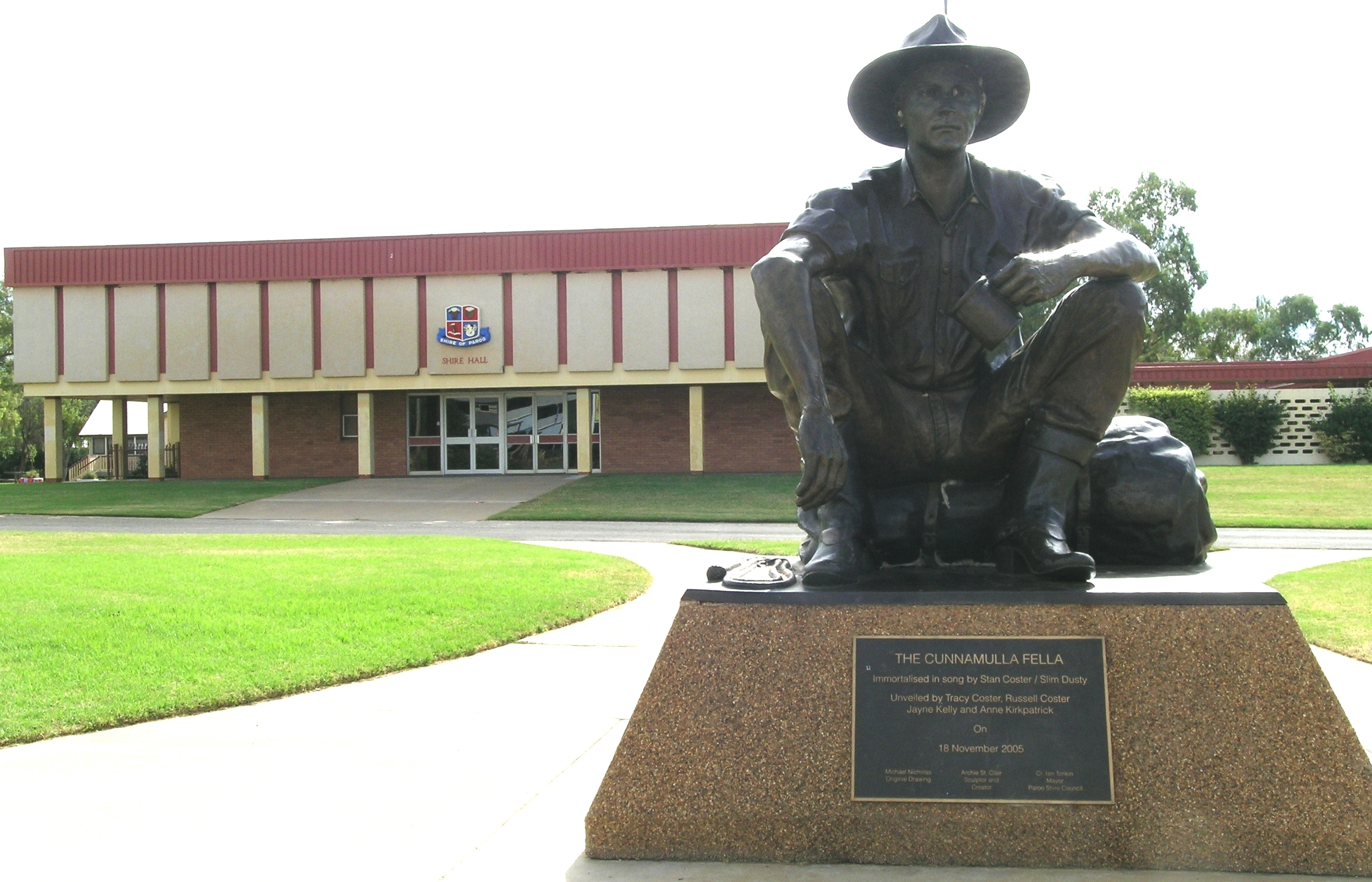 Statue of the "Cunnamulla Fella" erected as a tribute to song writer, Stan Coster and singer, Slim Dusty. The Cunnamulla Shire hall is in the background.